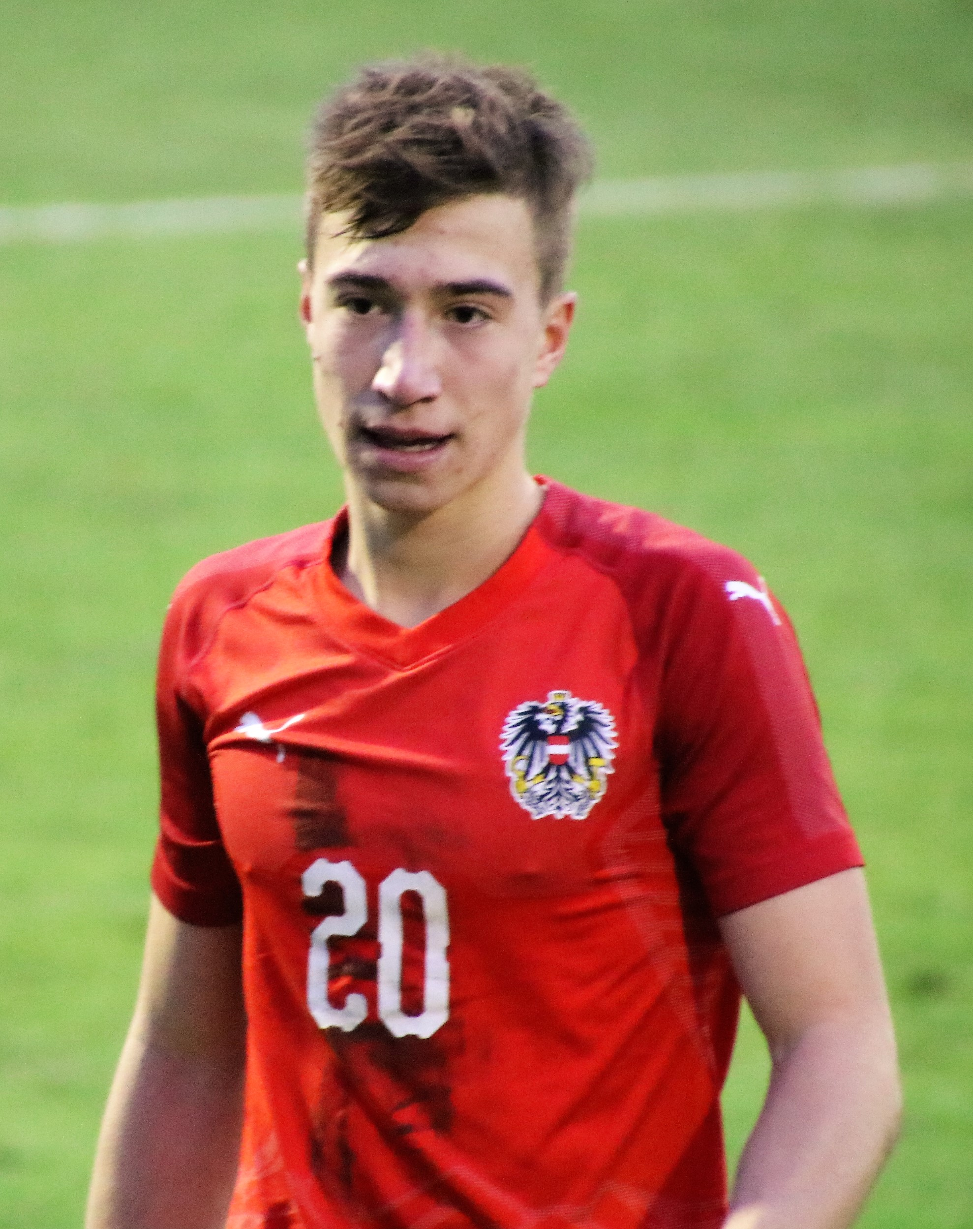 Euro Qualifying match